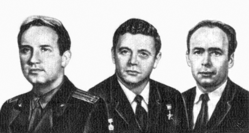 USSR stamp: Cosmonauts Georgy Dobrovolsky, Vladislav Volkov and Viktor Patsayev. Series: In Memory of Cosmonauts, Who Died During the "Soyuz 11" Space Mission, June 6-30, 1971